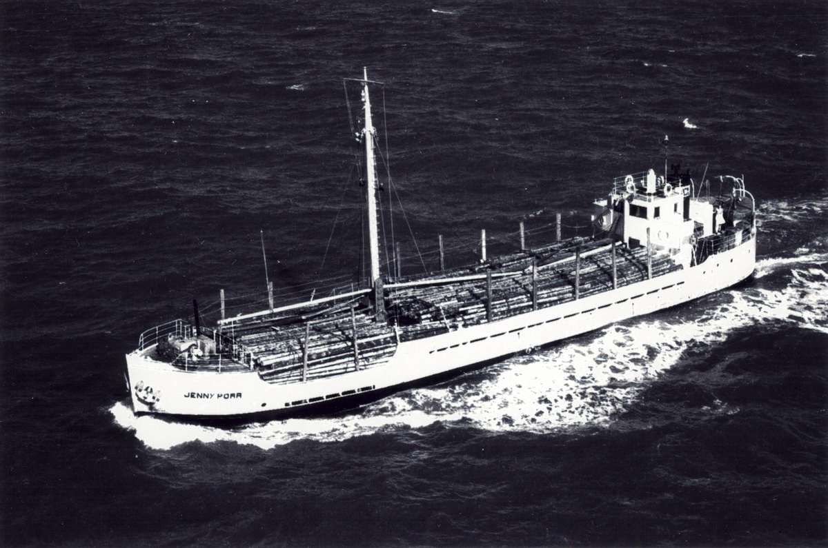 German coaster JENNY PORR (IMO 5221477) built at Schiffswerft August Pahl, Hamburg-Finkenwärder, as passenger ship FINKENWÄRDER (yard № 187, launched: 05-05-1936, delivered: 22-07-1936) for Hafen-Dampfschiffahrts AG Hamburg, sunk by bombs in Allied air raid 07-1943, raised 1947 and converted to cargo vessel (whereby 75% of the hull was renewed) at Elsflether Werft, Elsfleth, 1949 (yard № 273, delivered 23-04-1949), later names: 1949 CLAUS BISCHOFF, 1951 JENNY PORR, 1959 MARGA, 1963 SVANSJO, wrecked Hamnholmen, Aland Islands, 19-10-1971, collection J. Robert Boman (1926 - 2002) owned by Sjöhistoriska museet.